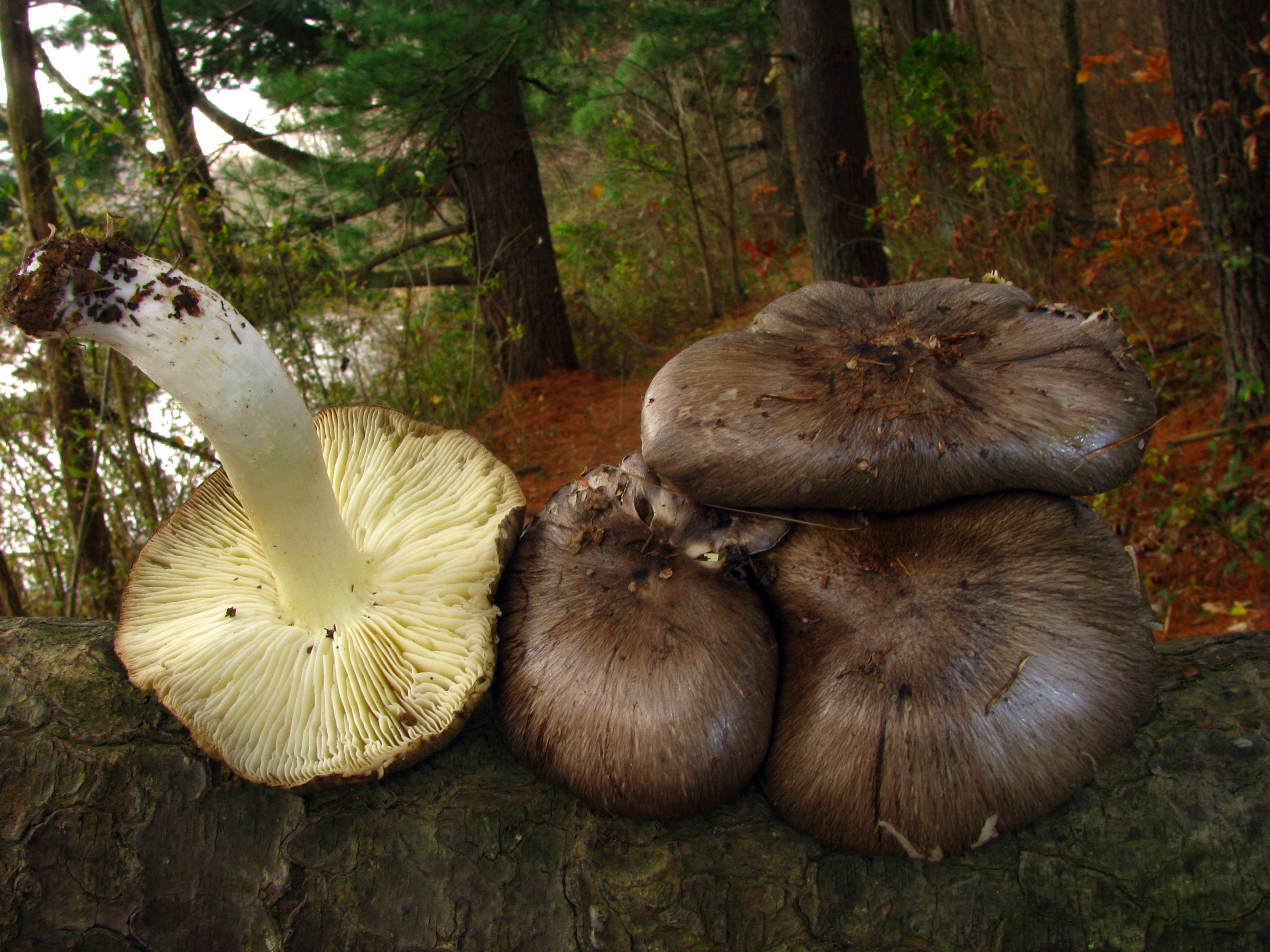 Fruit bodies of the agaric fungus Tricholoma portentosum (Fr.) Quél. Specimens photographed in Strouds Run State Park, Athens, Ohio, USA. "Notes: Large gray Tricholoma under pine. Flavor very mild, not bitter."